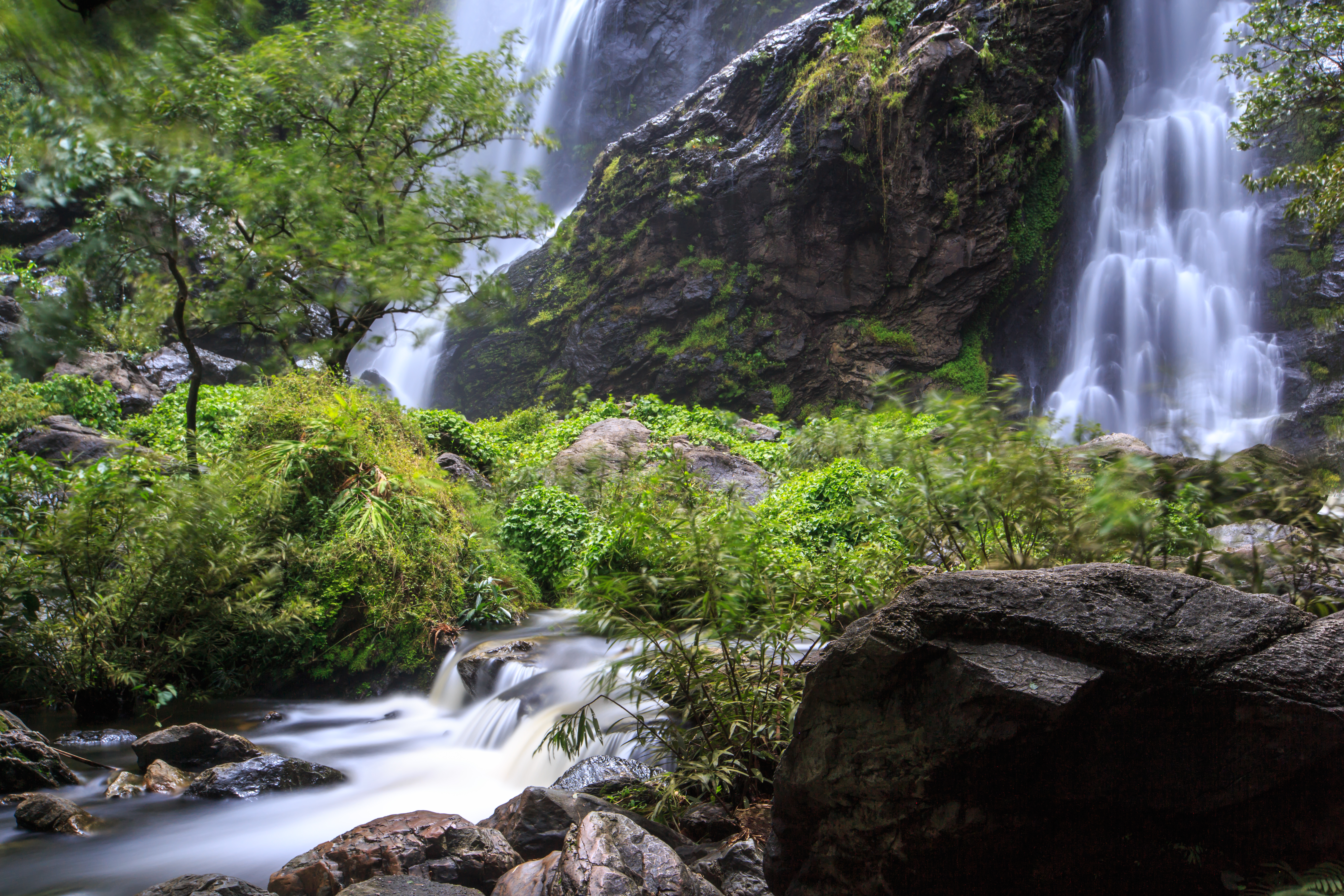 Khlong Lan Waterfall, Khlong Lan National Park, Kamphaeng Phet Province